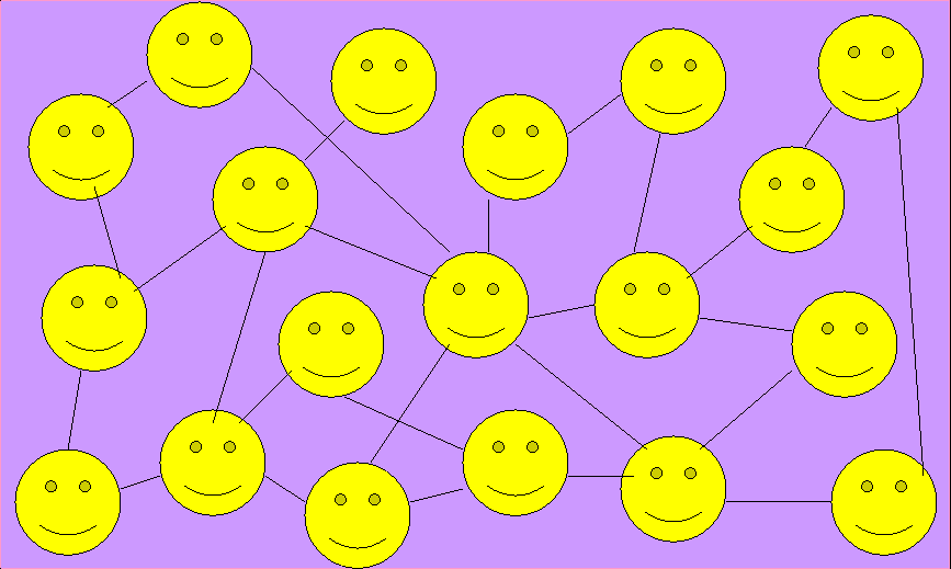 Description: Social Networking Source: own work Author: koreshky Date: 12/10/2007